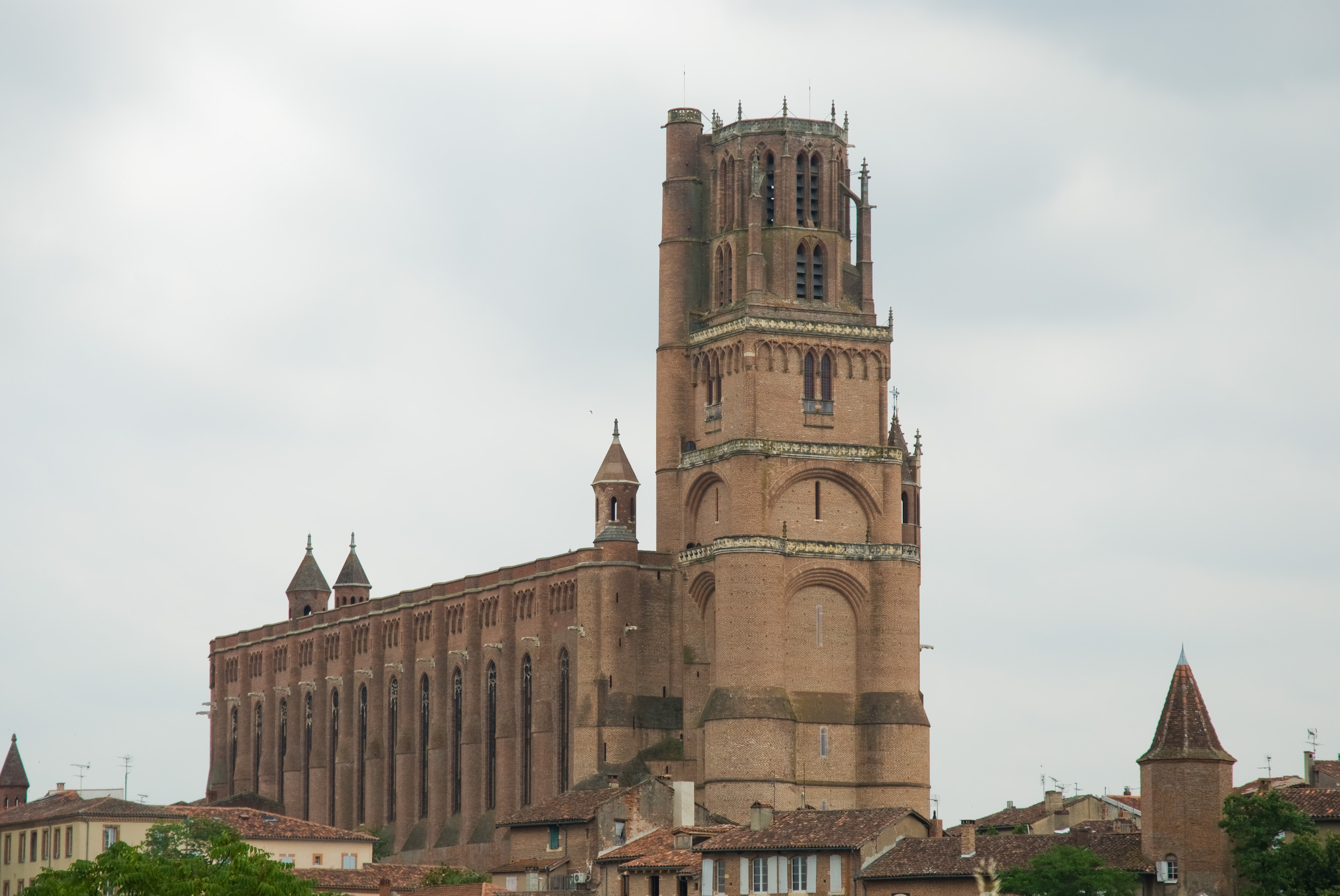 Outer view of the Cathedral in Albi, France.